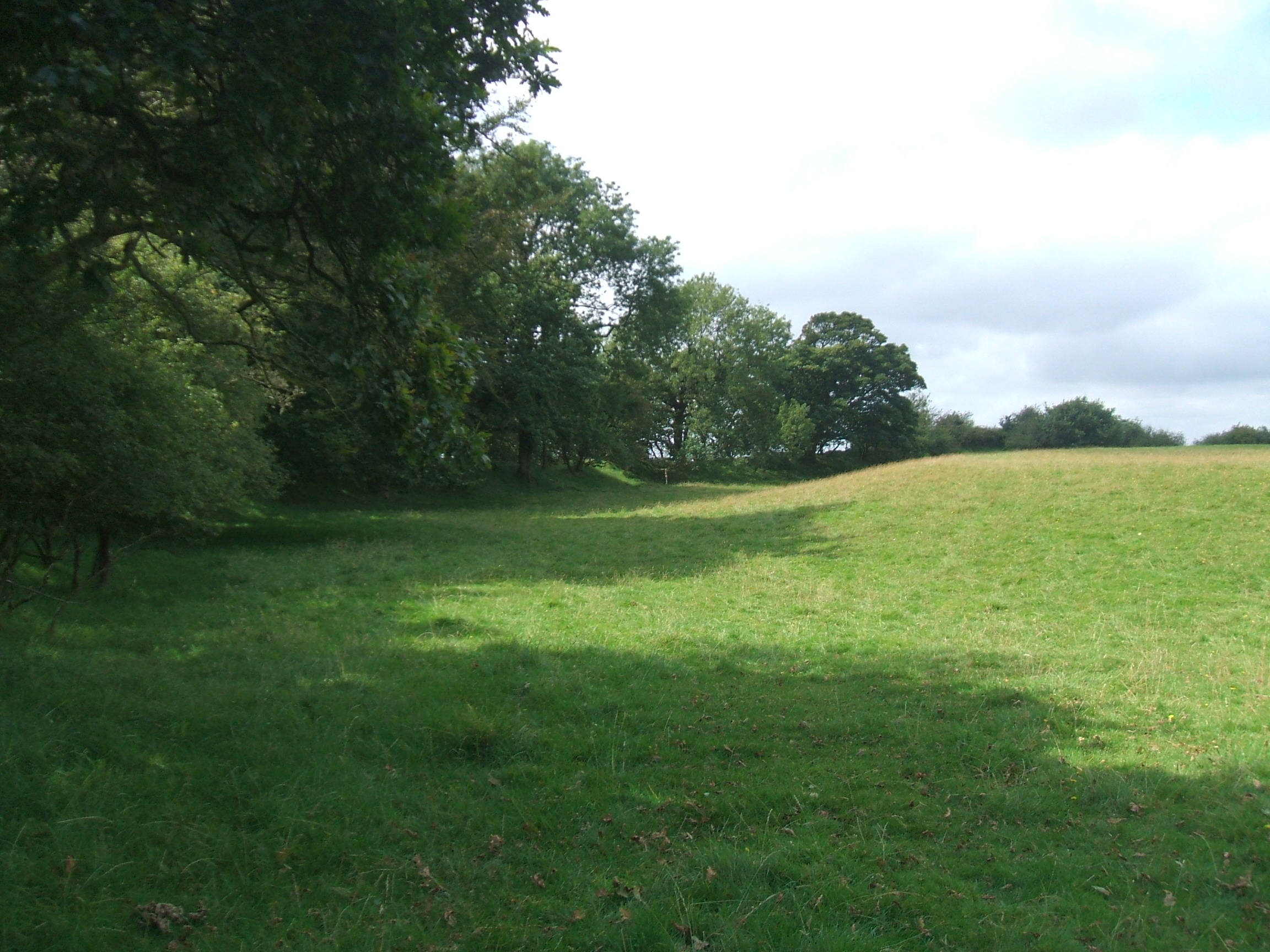 Cadbury Castle Southern inner earthwork (Right) and outer earthwork (Hedge line) from South East footpath entrance